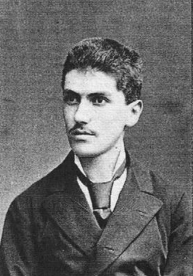 Scan of photo of Georg Pick in the 'Weierstrass photo album' from 1885. A smaller part of this is usually shown on other website on Georg Pick.